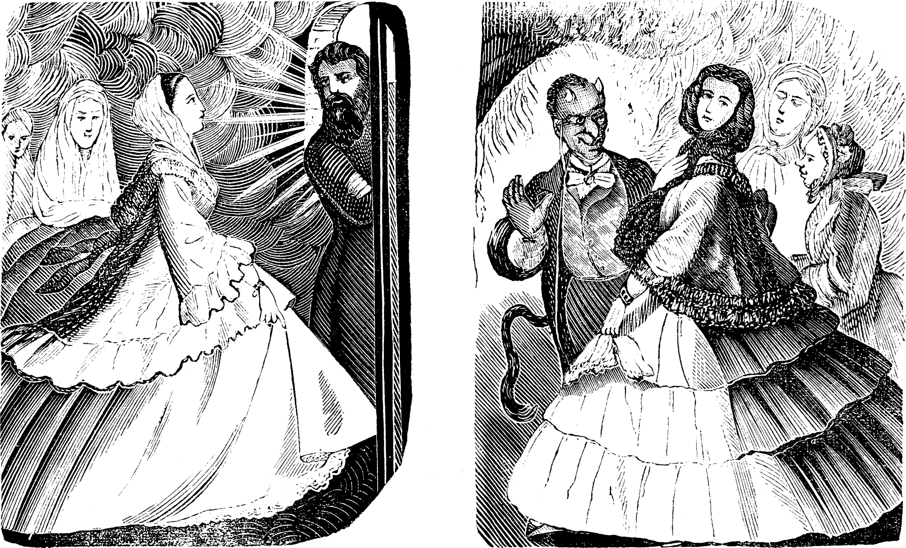 The crinoline after death, threatening women with eternal damnation based on verse Matthew 7:14 in the New Testament. (the entrance to Heaven is too narrow and the hell is crammed by crinolines)